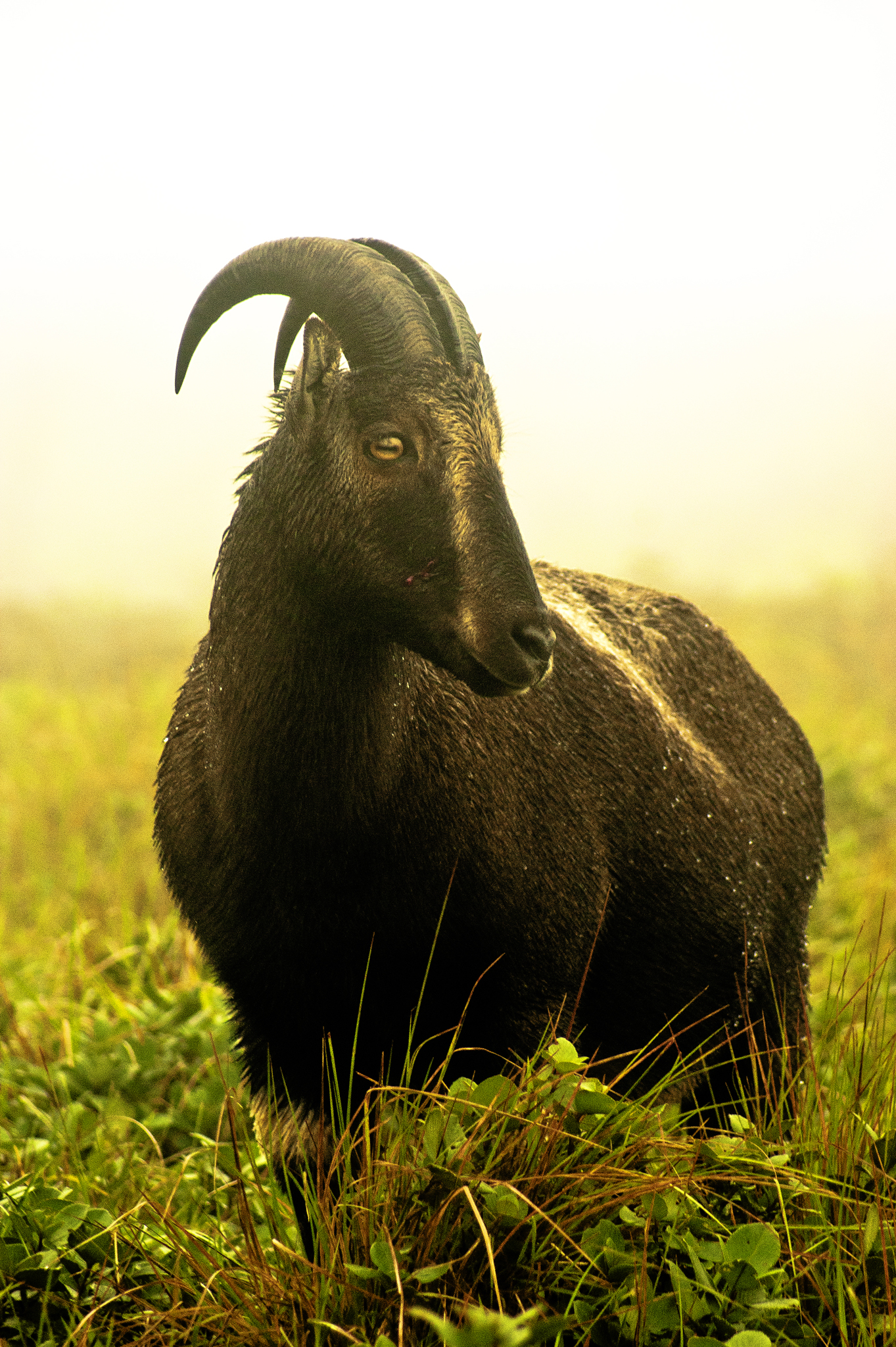 An adult Nilgiri Tahr.